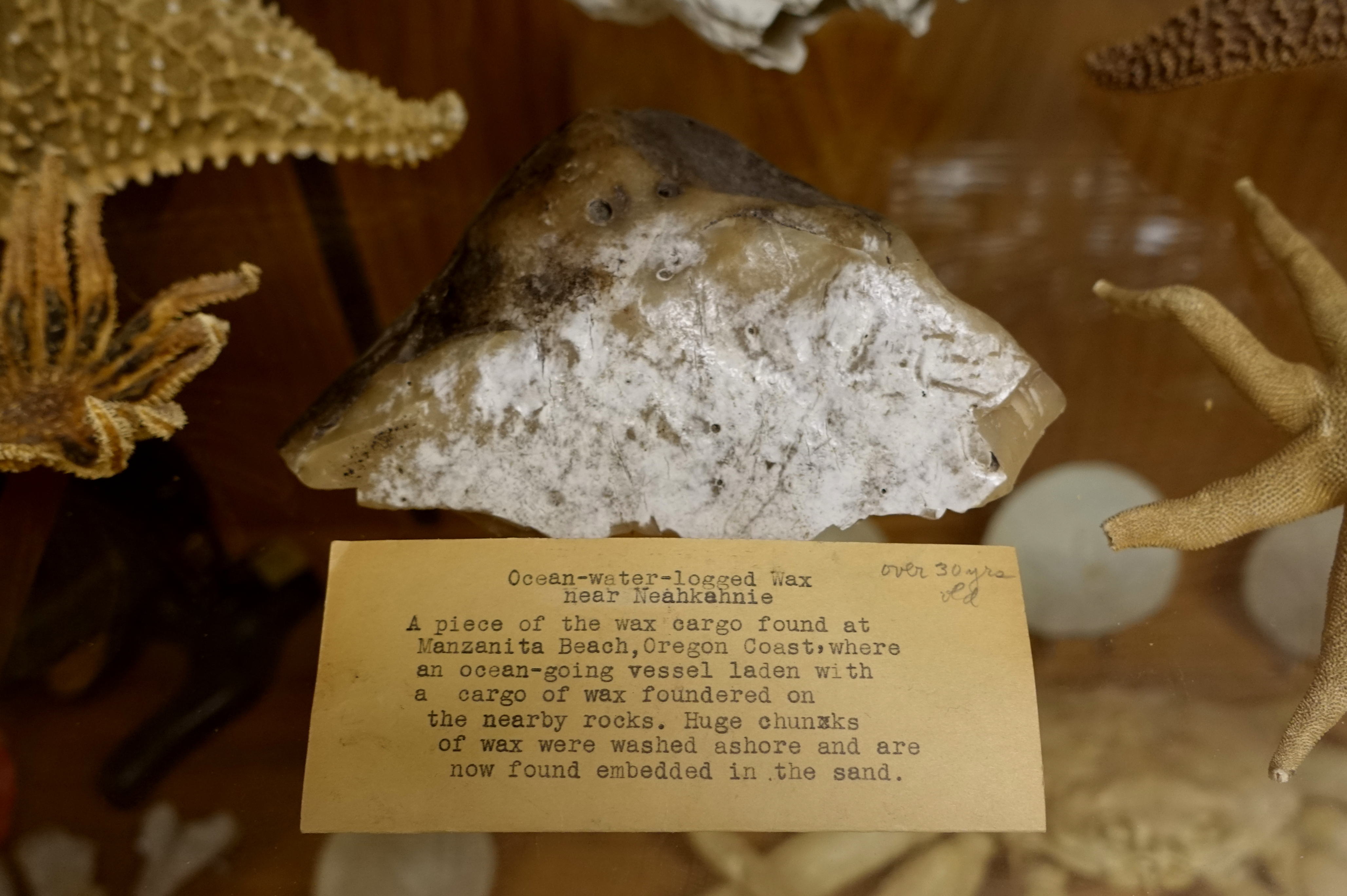 Exhibit in the Mount Angel Abbey Museum - Mount Angel Abbey - Mount Angel, Oregon, USA.